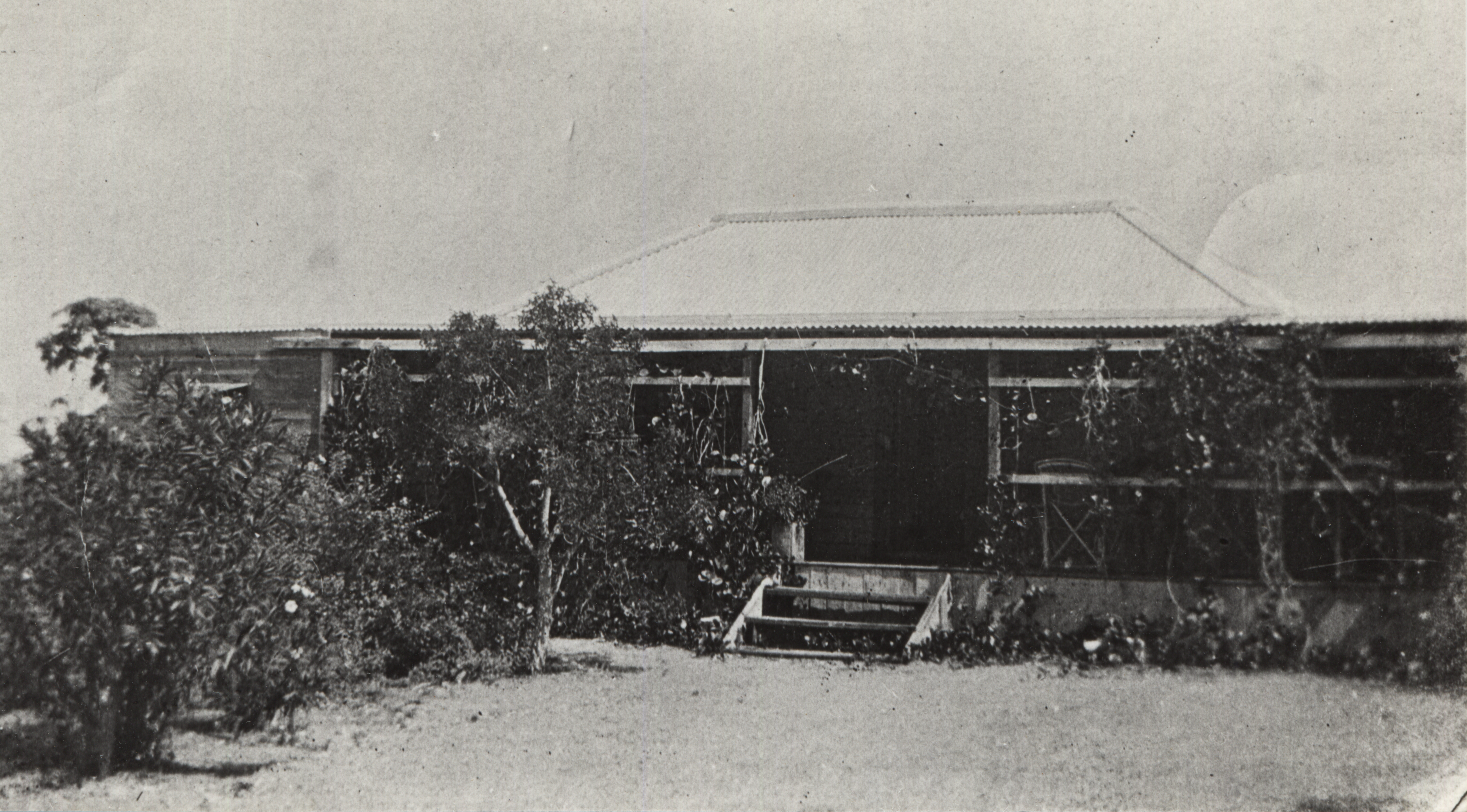 The Hall family house at Cossack, Western Australia. This is a re-print of an older photograph, the provenance and current location of which are unknown.